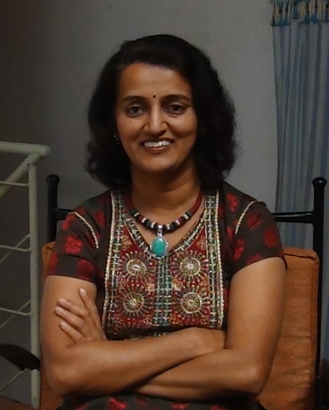 Dr Vasu photo